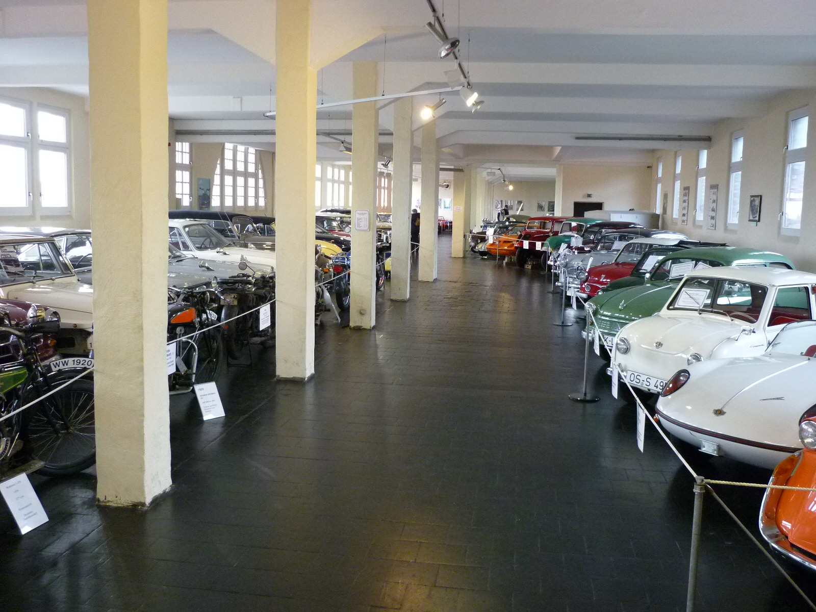 Automobile Museum in Melle, Germany